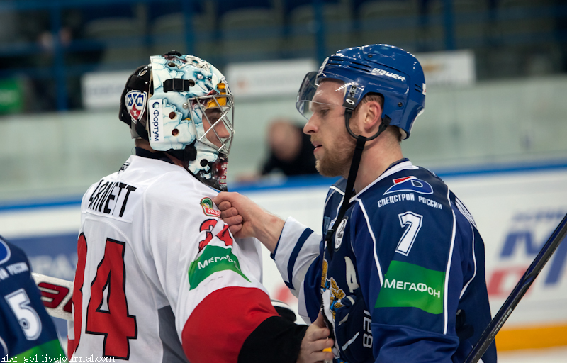 KHL game Amur Khabarovsk vs. Traktor Chelyabinsk on January 28, 2012. Traktor's goalie Michael Garnett and Amur defenceman Mikko Mäenpää during a post-game handshake line.